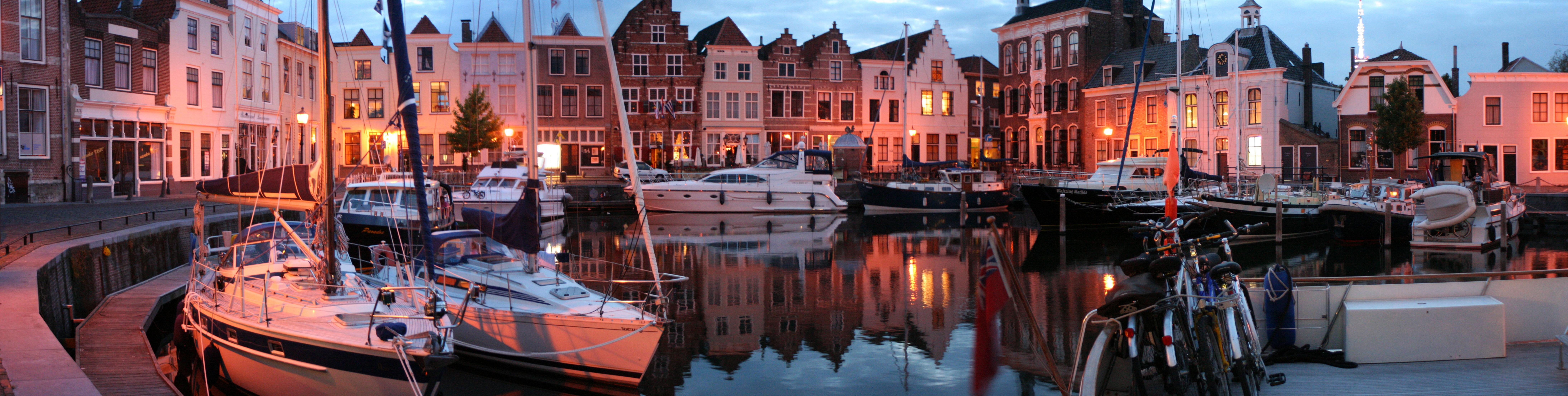 View in the Stadshaven in city of Goes.